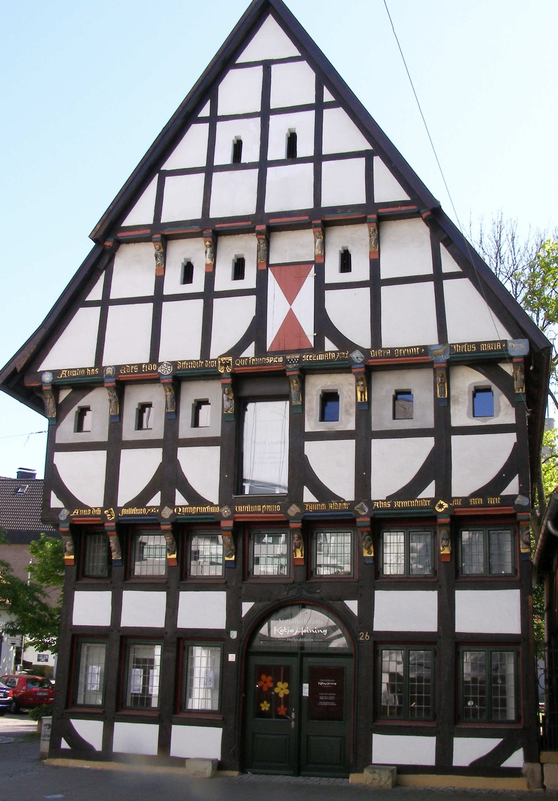 Framework house in the Bruederstrasse 26 in Herford, District of Herford, North Rhine-Westphalia, Germany. The house is called the Remensnider house which means house of the belt maker - translated from medieval german language. The woodcarvings on the gable show the humans bad side and the good side by different characters from devil to saint.